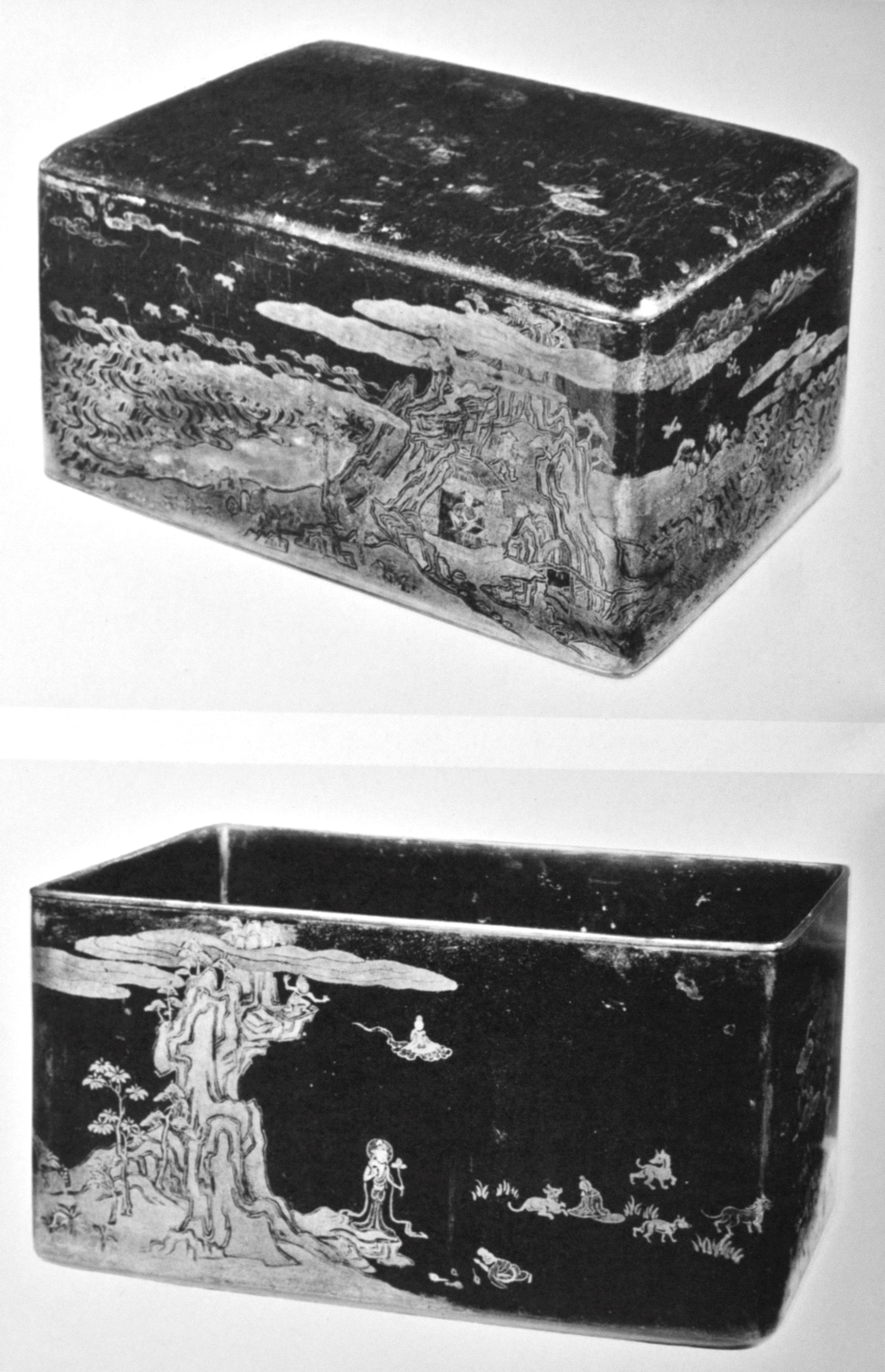 Fujita Bijutsukan, Osaka, Japan